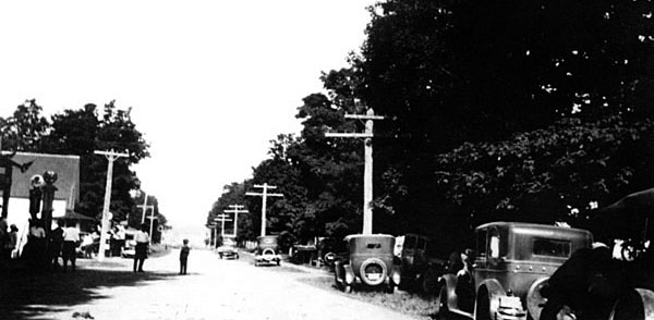 Cars parked along street in Meductic, New Brunswick, circa 1920.